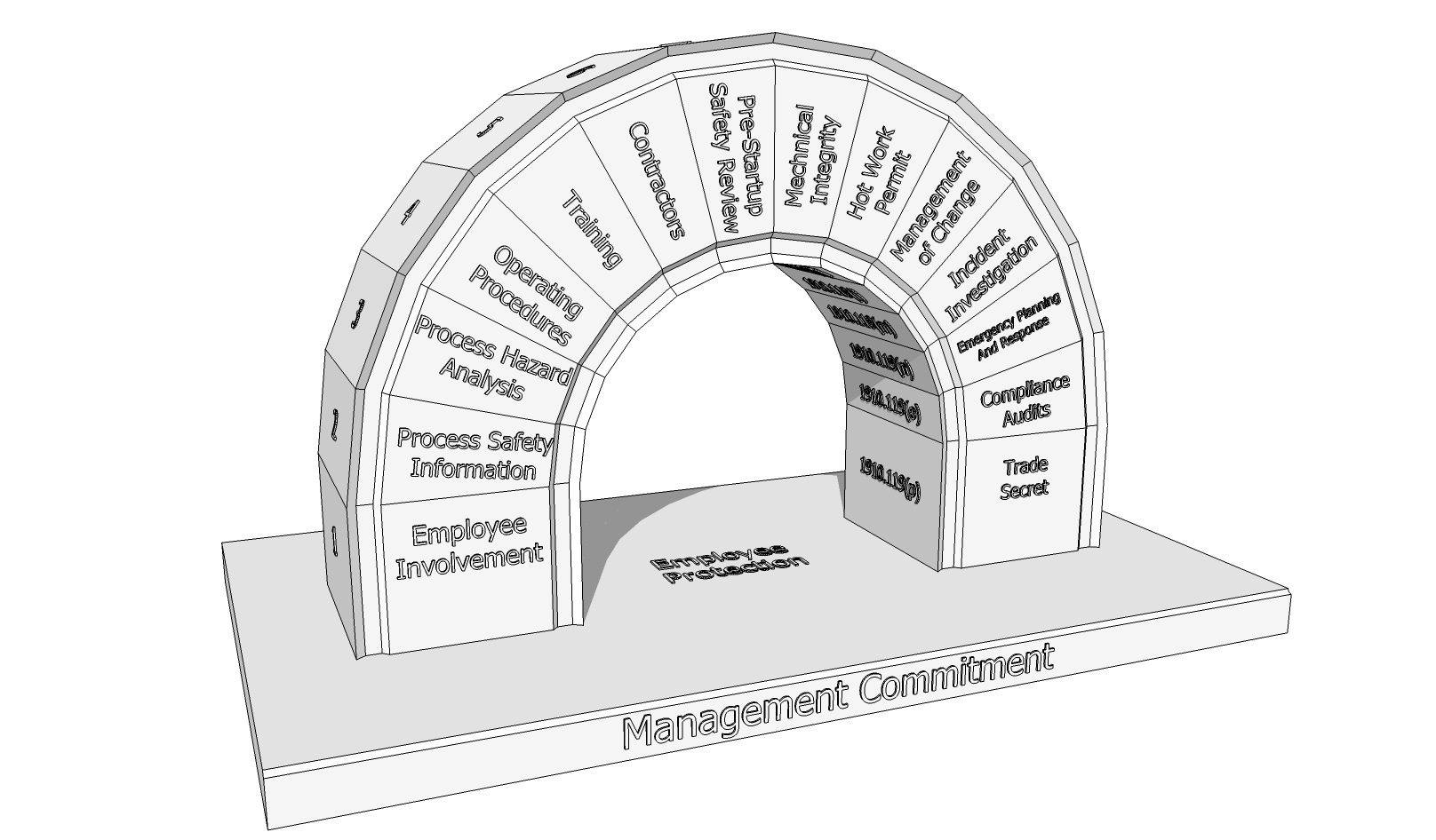 3D Arch with 14 labeled elements from 29 CFR 1910.119 for Process Safety Management. Created in sketchup and exported as 2D image.